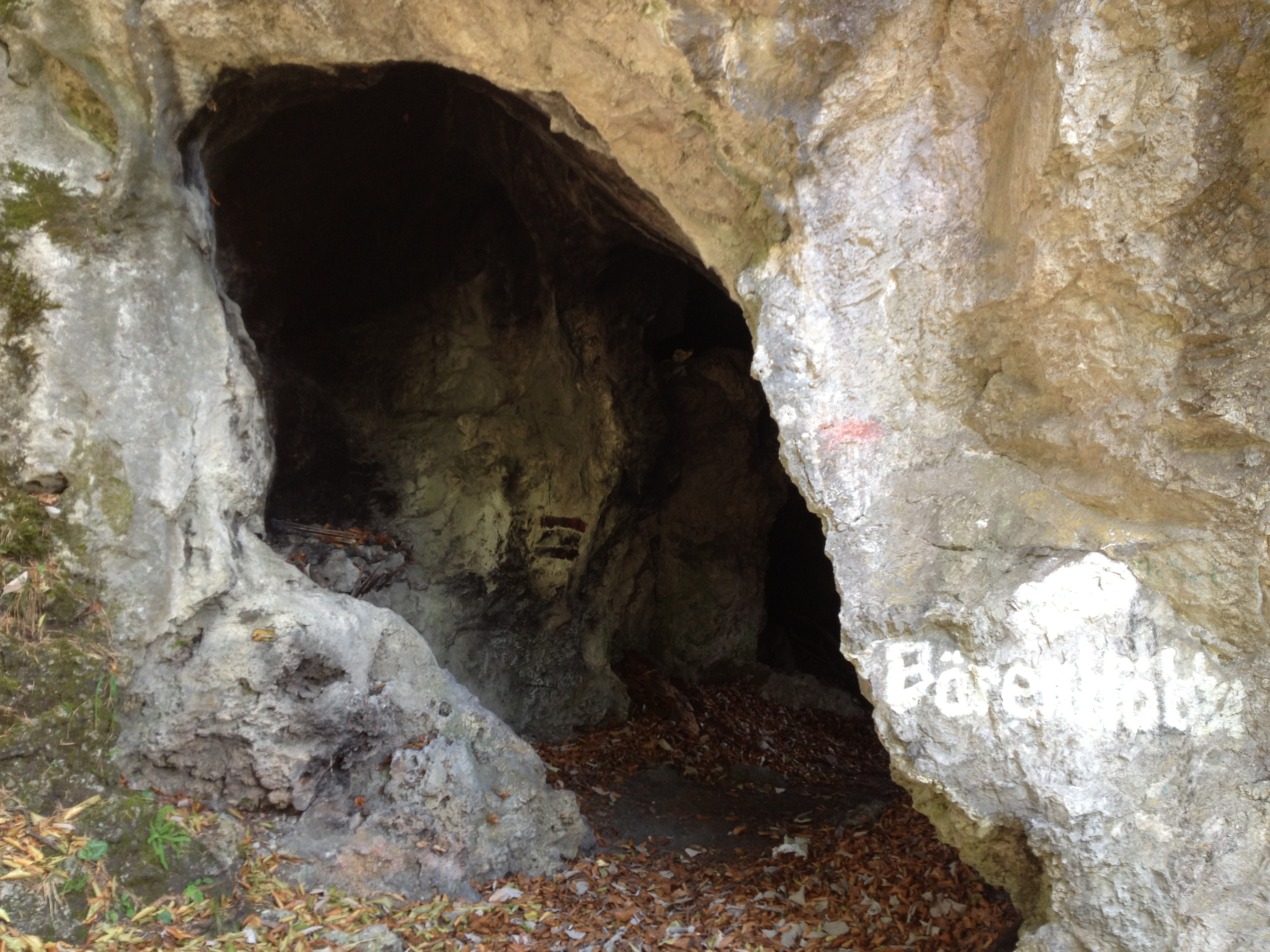 hölee